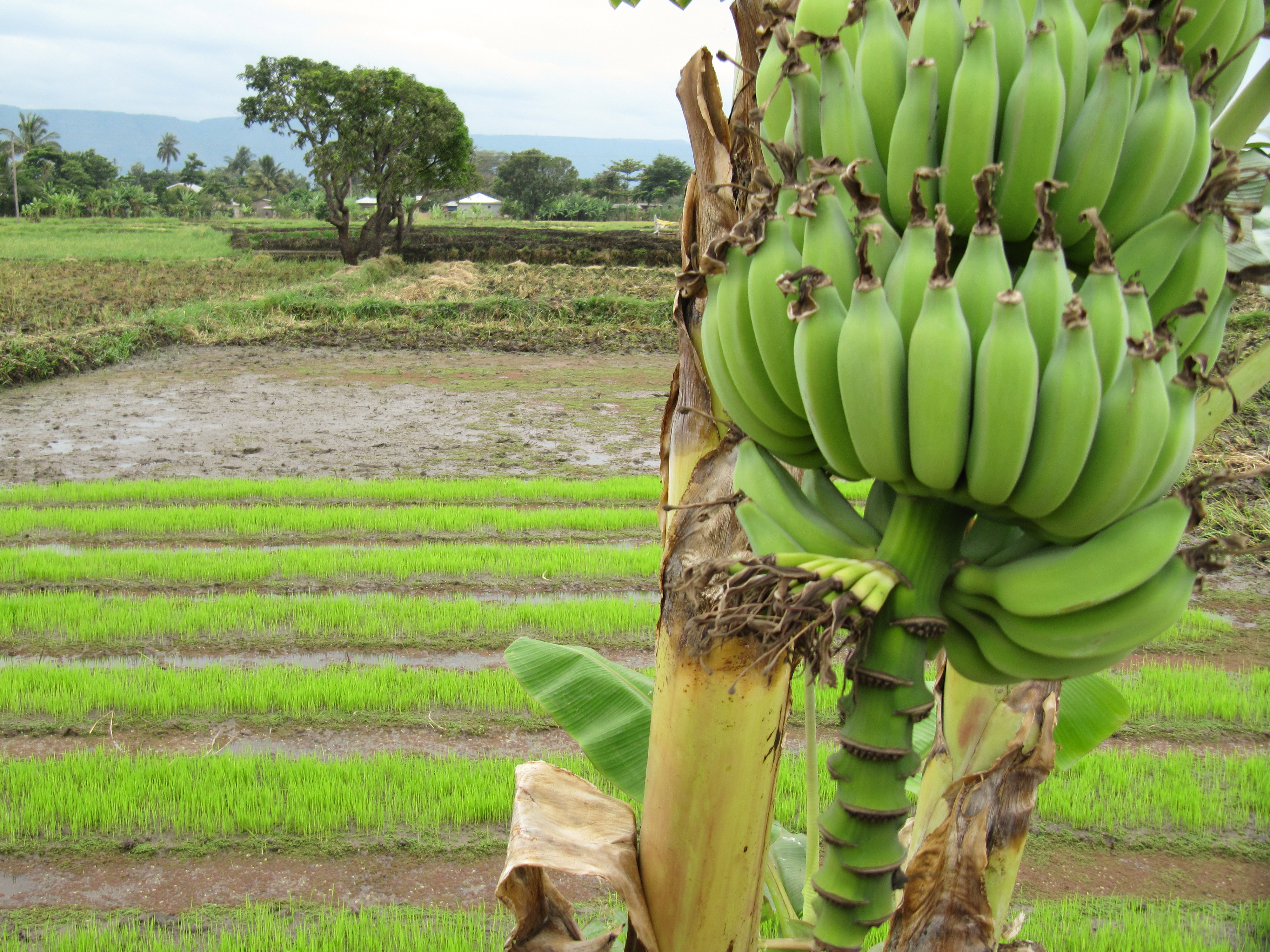 Banana plant and rice fields in Mto wa Mbu